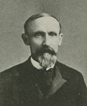 Addison S. McClure.